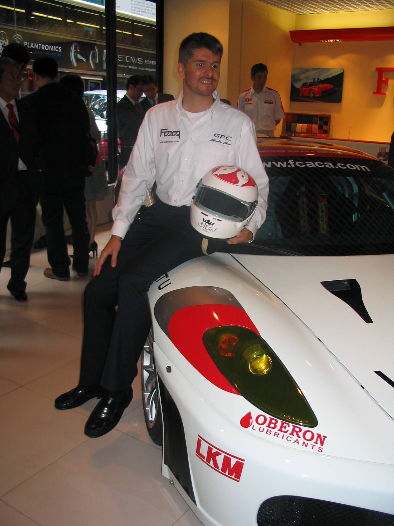 Taken by user Ngchikit on 22 May 2007.